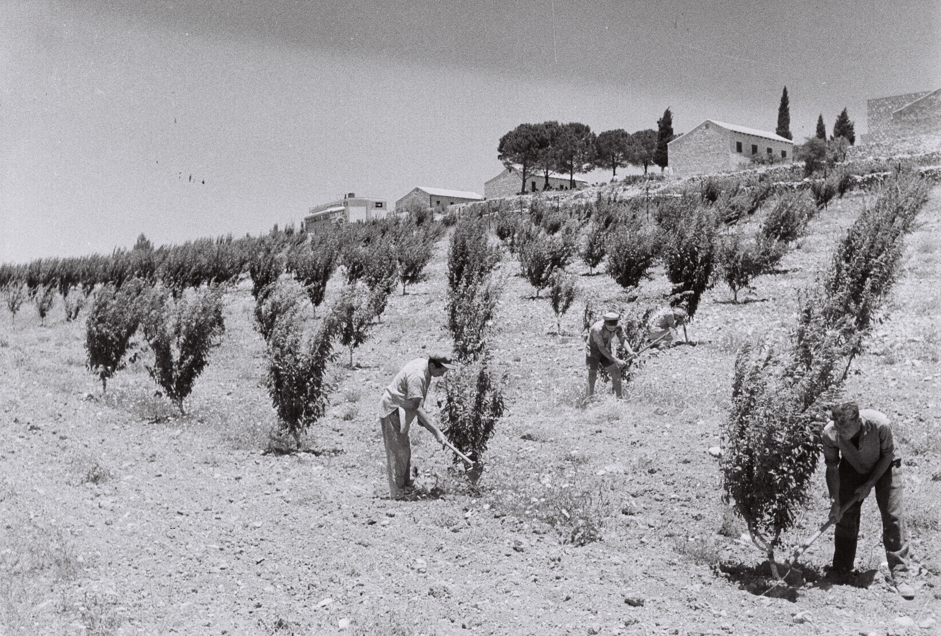 A view of the orchard of Kfar Etzion and the Kibbutz above it.